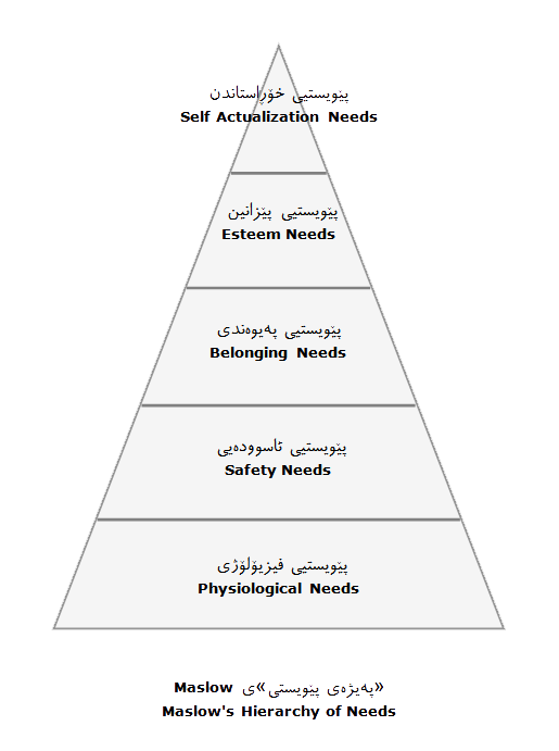 Maslow's hierarchy of needs